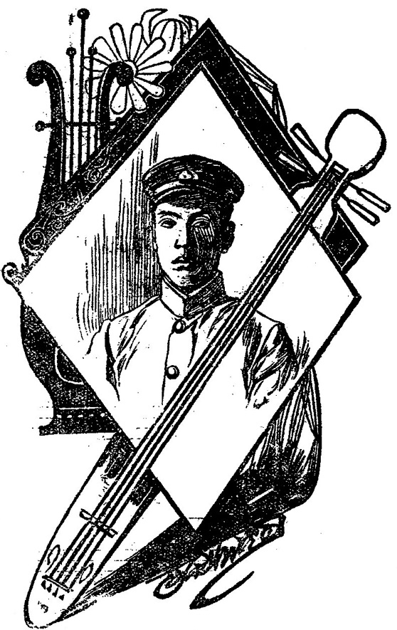 The self-portrait of Shuji Fujisawa(1875-1945).